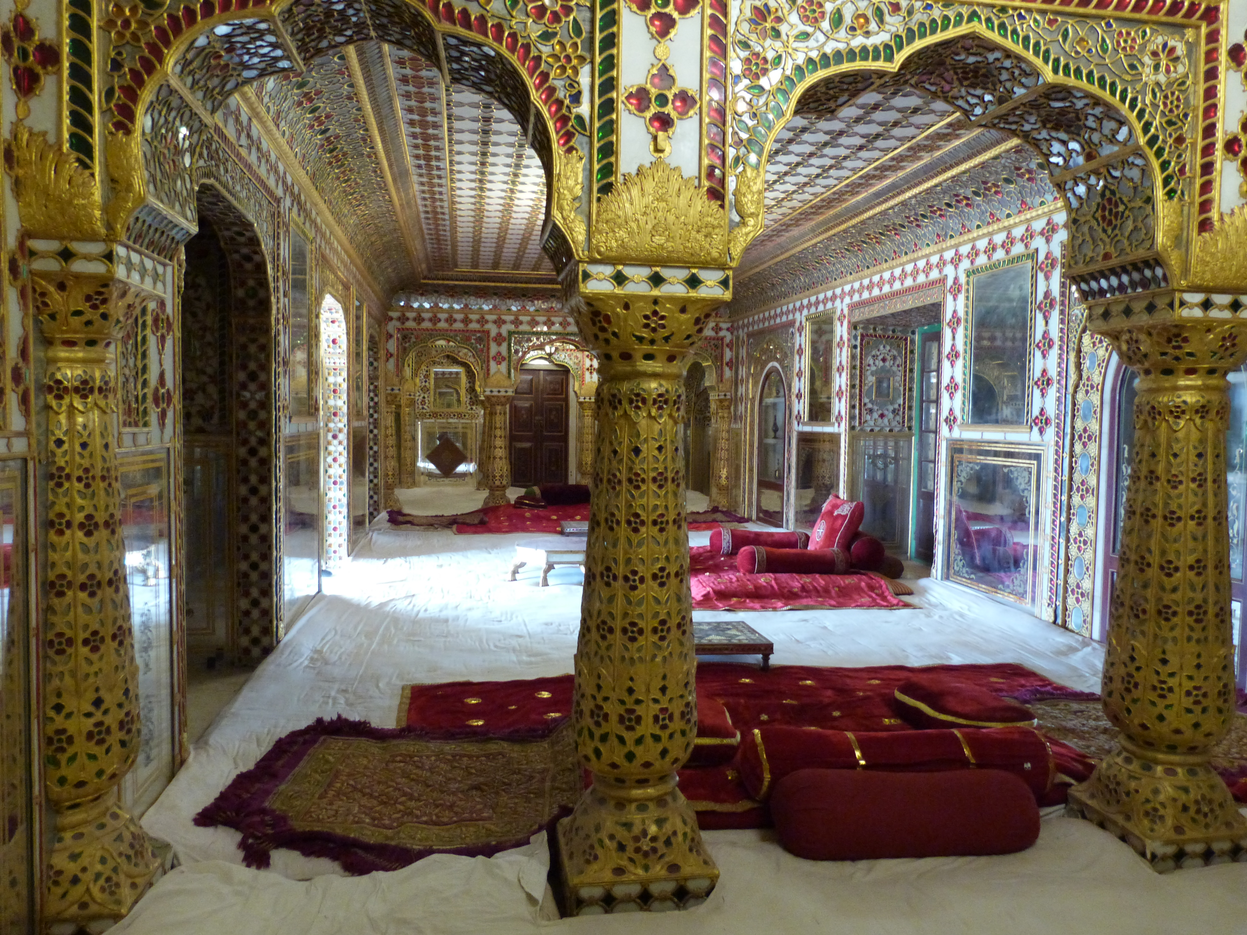 In the background, a typical Indian gaddi (throne with cushions)